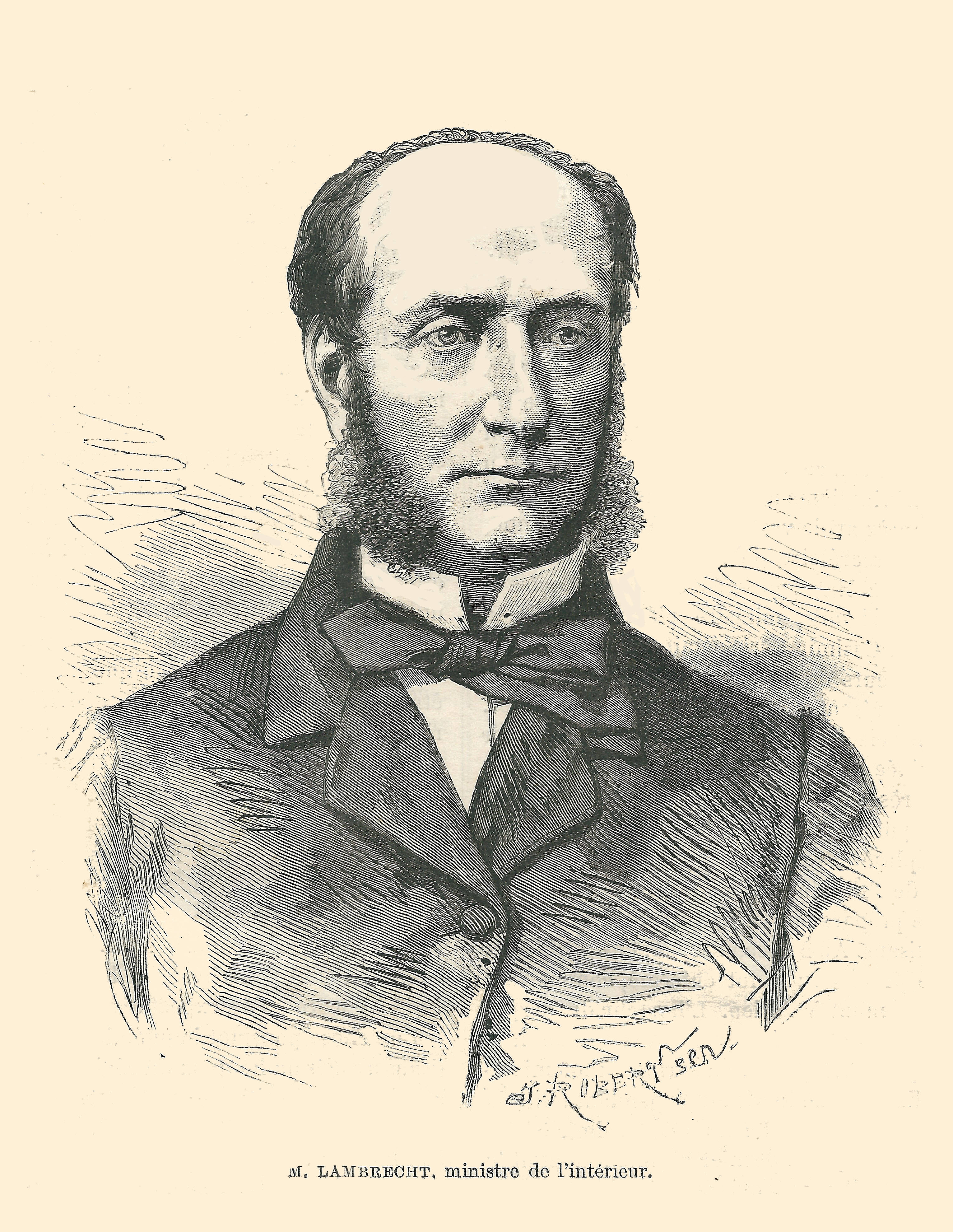 Félix Edmond Hyacinthe Lambrecht